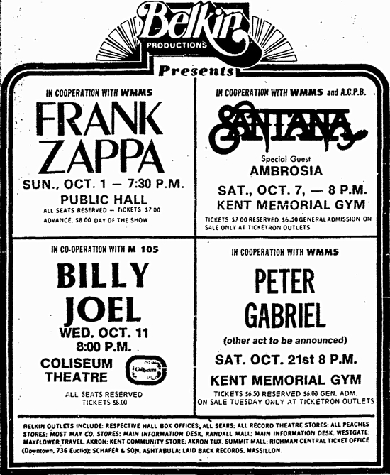 Print ad for four separate October 1978 rock concerts in Northeast Ohio, all presented by Belkin Productions and local FM radio stations